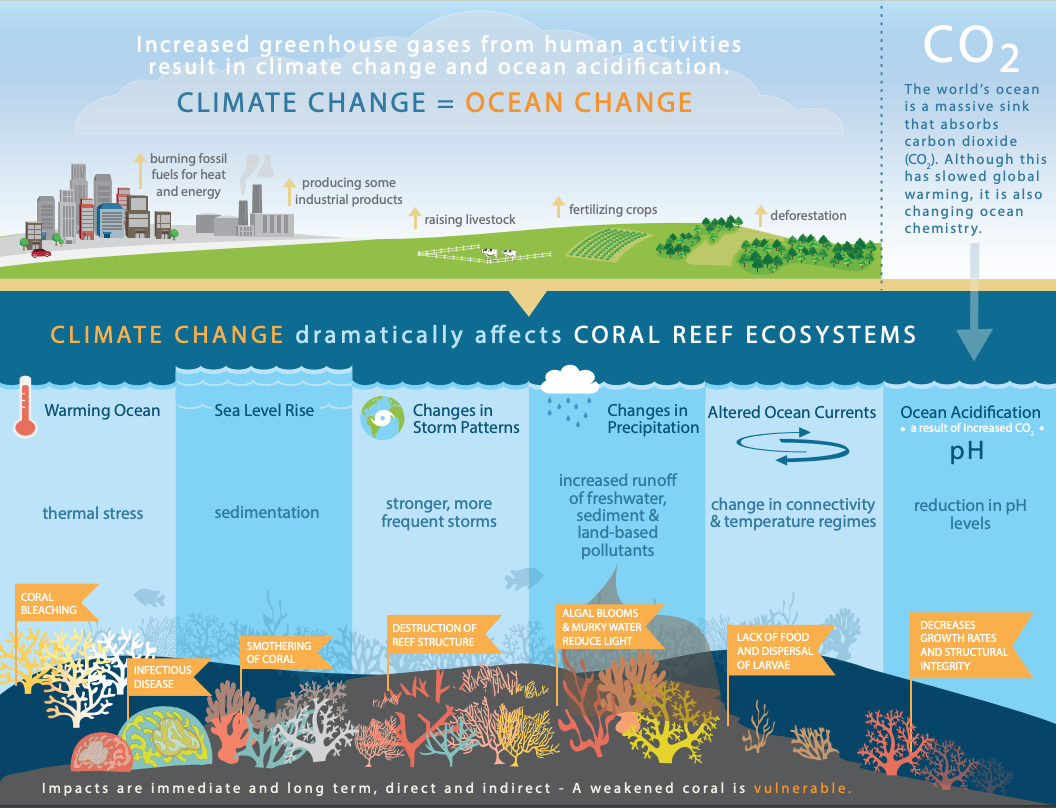 Climate change threats to coral reefs. Climate change poses a major threat to coral reefs. Climate change is the greatest global threat to coral reef ecosystems. Scientific evidence now clearly indicates that the Earth's atmosphere and ocean are warming, and that these changes are primarily due to greenhouse gases derived from human activities. As temperatures rise, mass coral bleaching events and infectious disease outbreaks are becoming more frequent. Additionally, carbon dioxide absorbed into the ocean from the atmosphere has already begun to reduce calcification rates in reef-building and reef-associated organisms by altering seawater chemistry through decreases in pH. This process is called ocean acidification. Climate change will affect coral reef ecosystems, through sea level rise, changes to the frequency and intensity of tropical storms, and altered ocean circulation patterns. When combined, all of these impacts dramatically alter ecosystem function, as well as the goods and services coral reef ecosystems provide to people around the globe